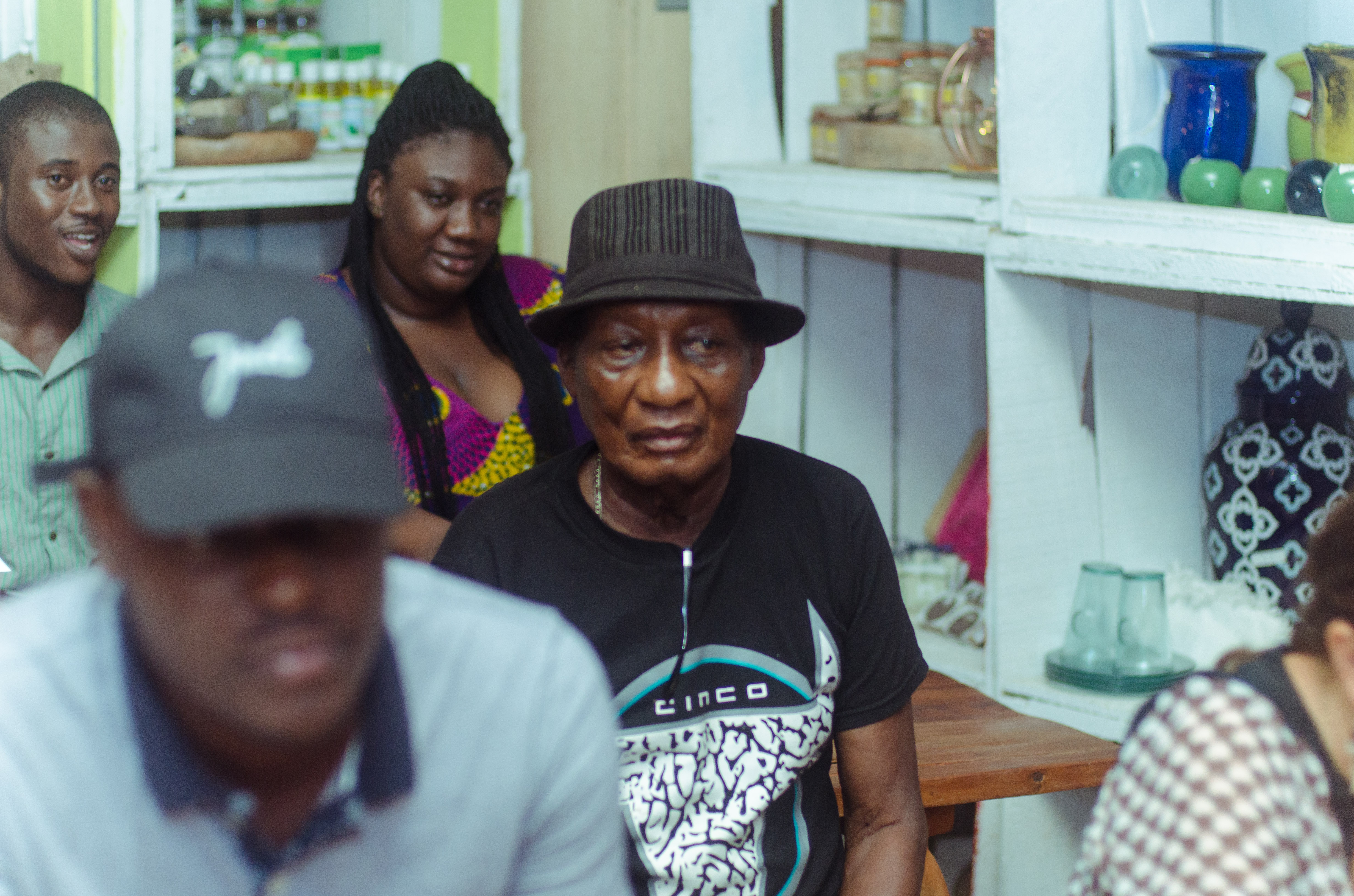 Ebo Taylor watching a musical performance by an upcoming Ghanaian artistes.